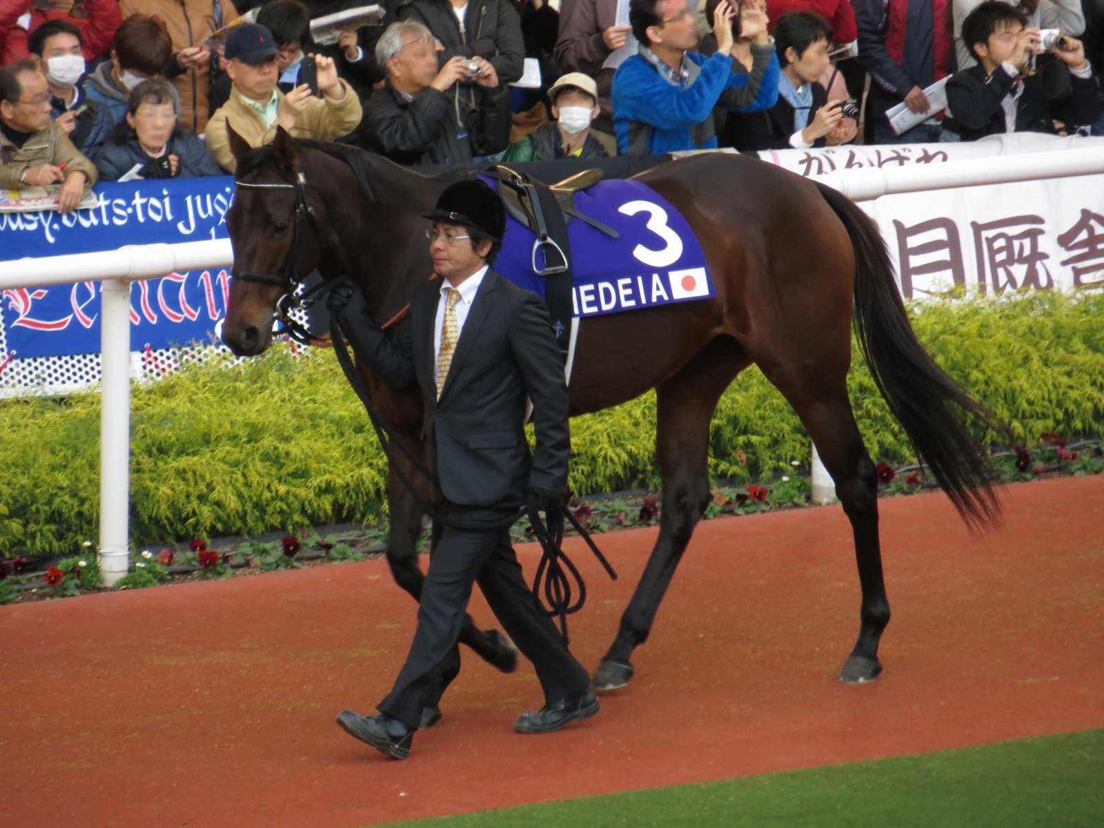 Medeia (Racehorse of Japan).